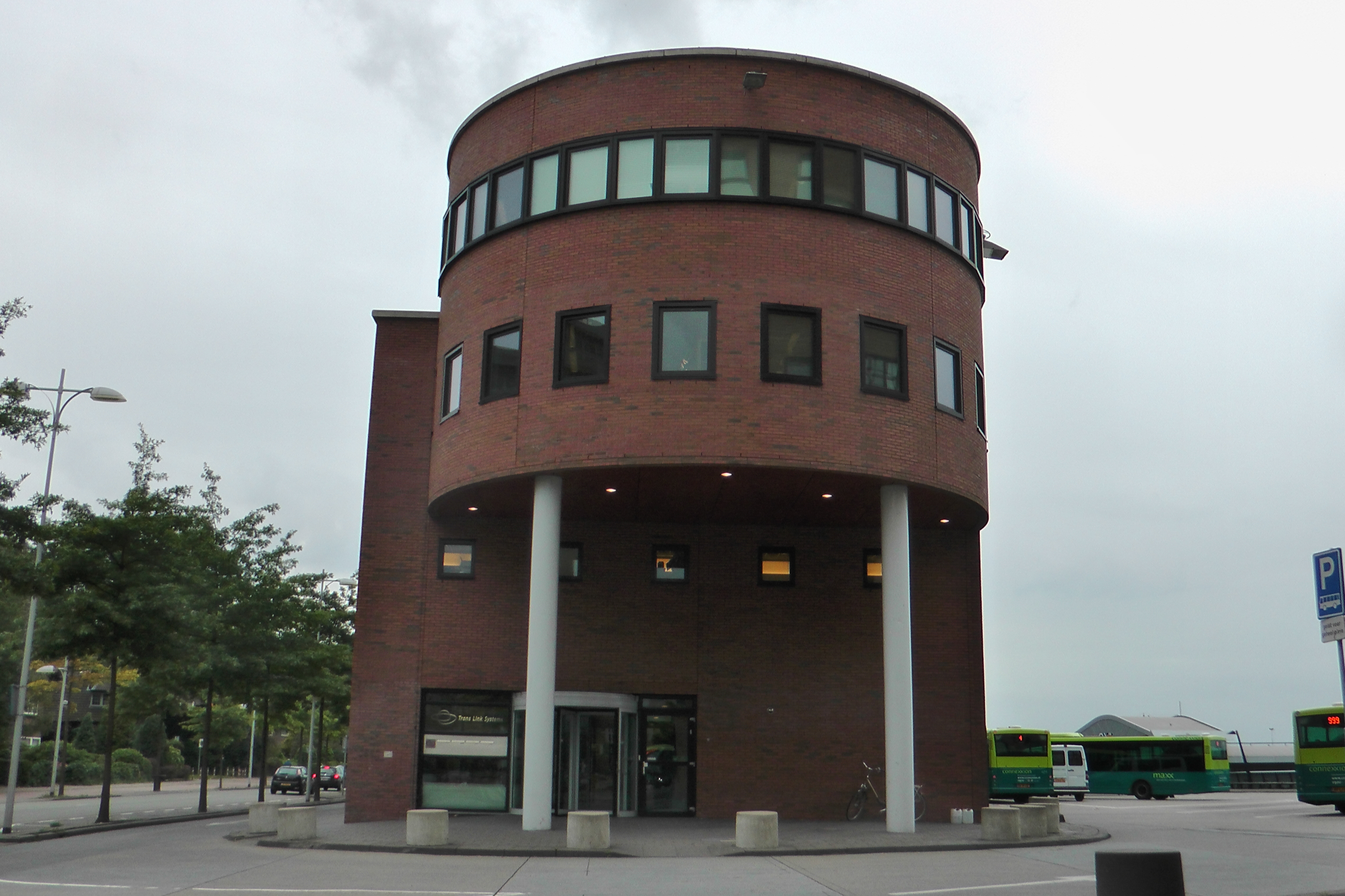 Headquarters of Translink Systems, the developer of the dutch public transport chipcard. Picture made in Amersfoort, 2011.